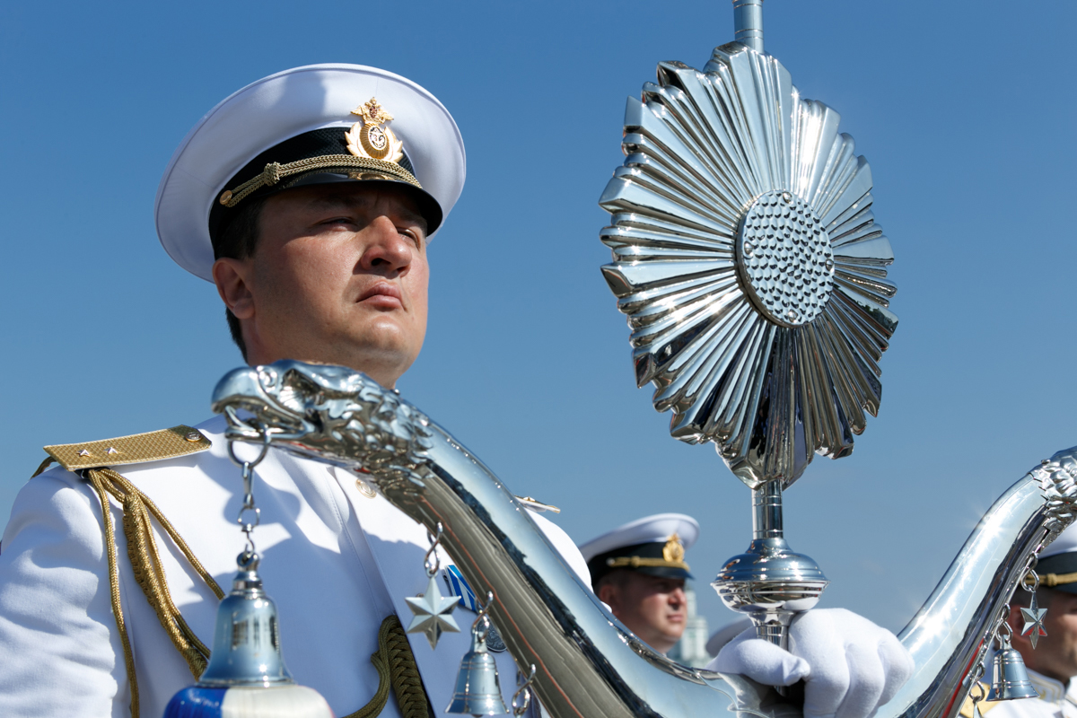 Главный военно-морской парад-2018 в Санкт-Петербурге и Кронштадте